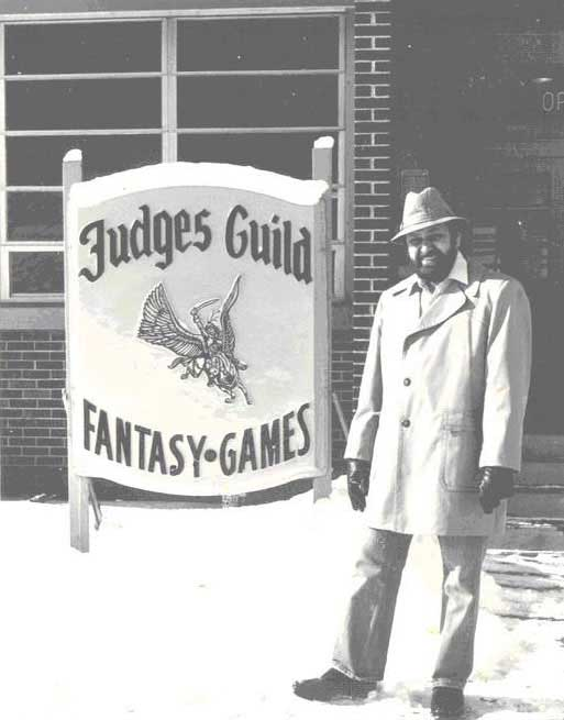 Bob Bledsaw in front of the new sign at Judges Guild's Sunnyside Road locatiion